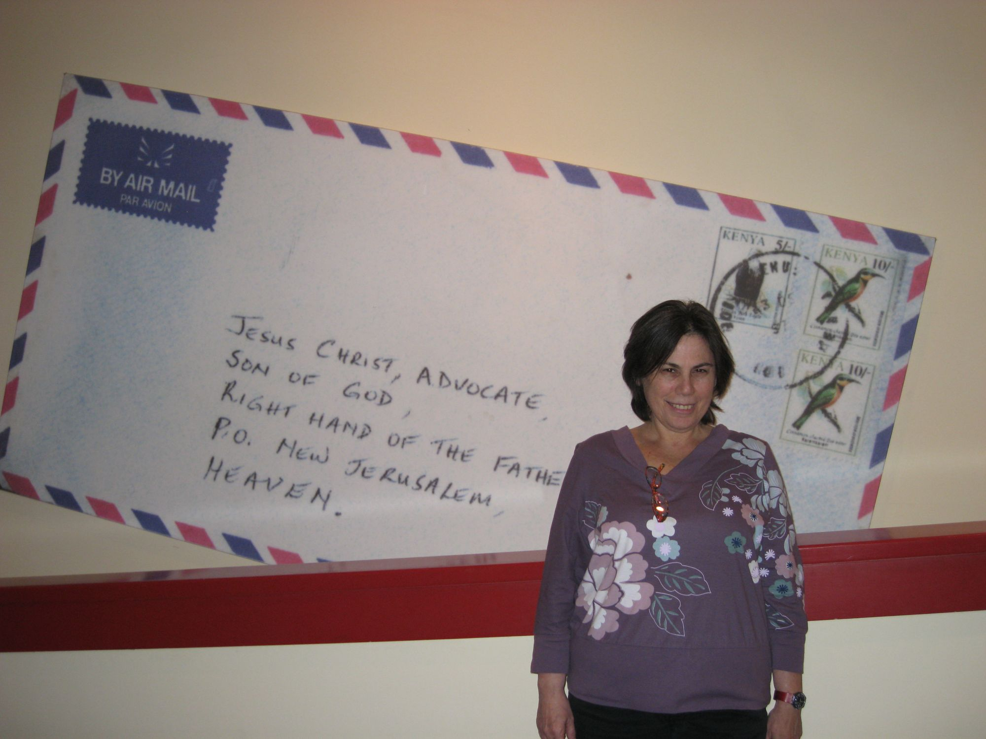 Dvora Bochman at the Eretz Israel Museum with a reproduction of a letter to god, featuring some birds stamps she had drafted